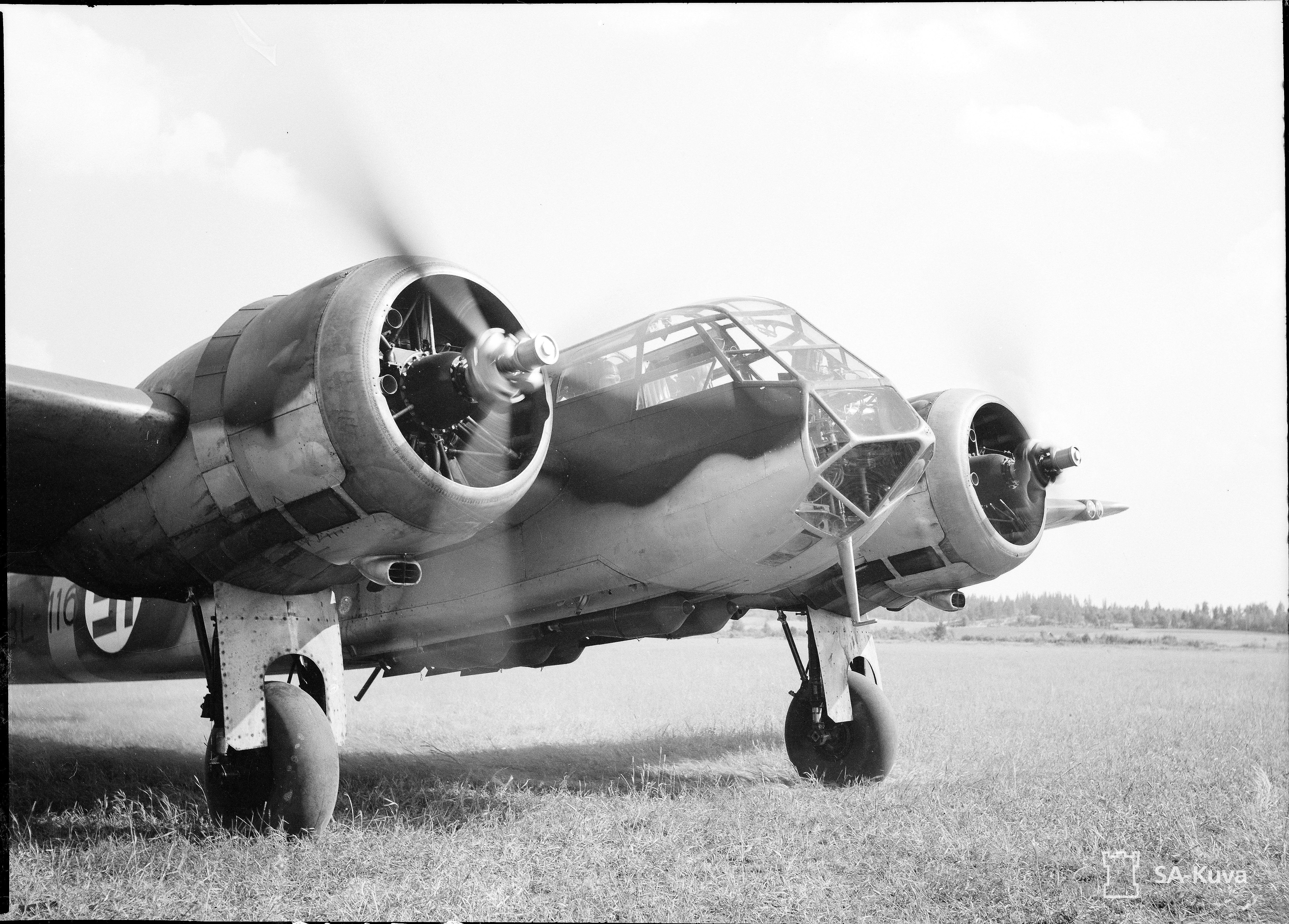 Bristol Blenheim of the Finnish Air Force.